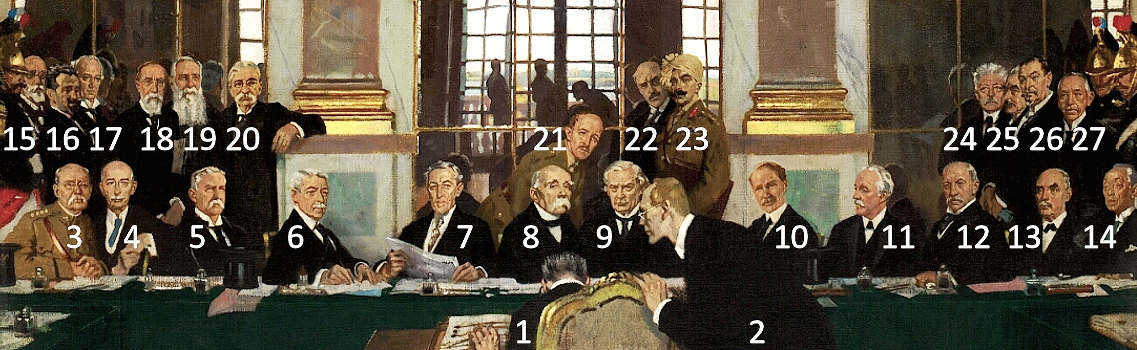 A view of the interior of the Hall of Mirrors at Versailles, with the heads of state sitting and standing before a long table. Front Row: Dr Johannes Bell (Germany) signing with Herr Hermann Muller leaning over him. Middle row (seated, left to right): General Tasker H Bliss, Col E M House, Mr Henry White, Mr Robert Lansing, President Woodrow Wilson (United States); M Georges Clemenceau (France); Mr D Lloyd George, Mr A Bonar Law, Mr Arthur J Balfour, Viscount Milner, Mr G N Barnes (Great Britain); The Marquis Saionzi (Japan). Back row (left to right): M Eleutherios Venizelos (Greece); Dr Affonso Costa (Portugal); Lord Riddell (British Press); Sir George E Foster (Canada); M Nikola Pachitch (Serbia); M Stephen Pichon (France); Col Sir Maurice Hankey, Mr Edwin S Montagu (Great Britain); the Maharajah of Bikaner (India); Signor Vittorio Emanuele Orlando (Italy); M Paul Hymans (Belgium); General Louis Botha (South Africa); Mr W M Hughes (Australia). Note: This description was copied verbatim from the Imperial War Museum exhibit, where some names differ from their official spelling (Muller vs Müller, Eleutherios vs Eleftherios, Affonso vs Afonso, Saionzi vs Saionji, Patchitch vs Pašić, Stephen vs Stéphen). We keep the original text for historical accuracy.